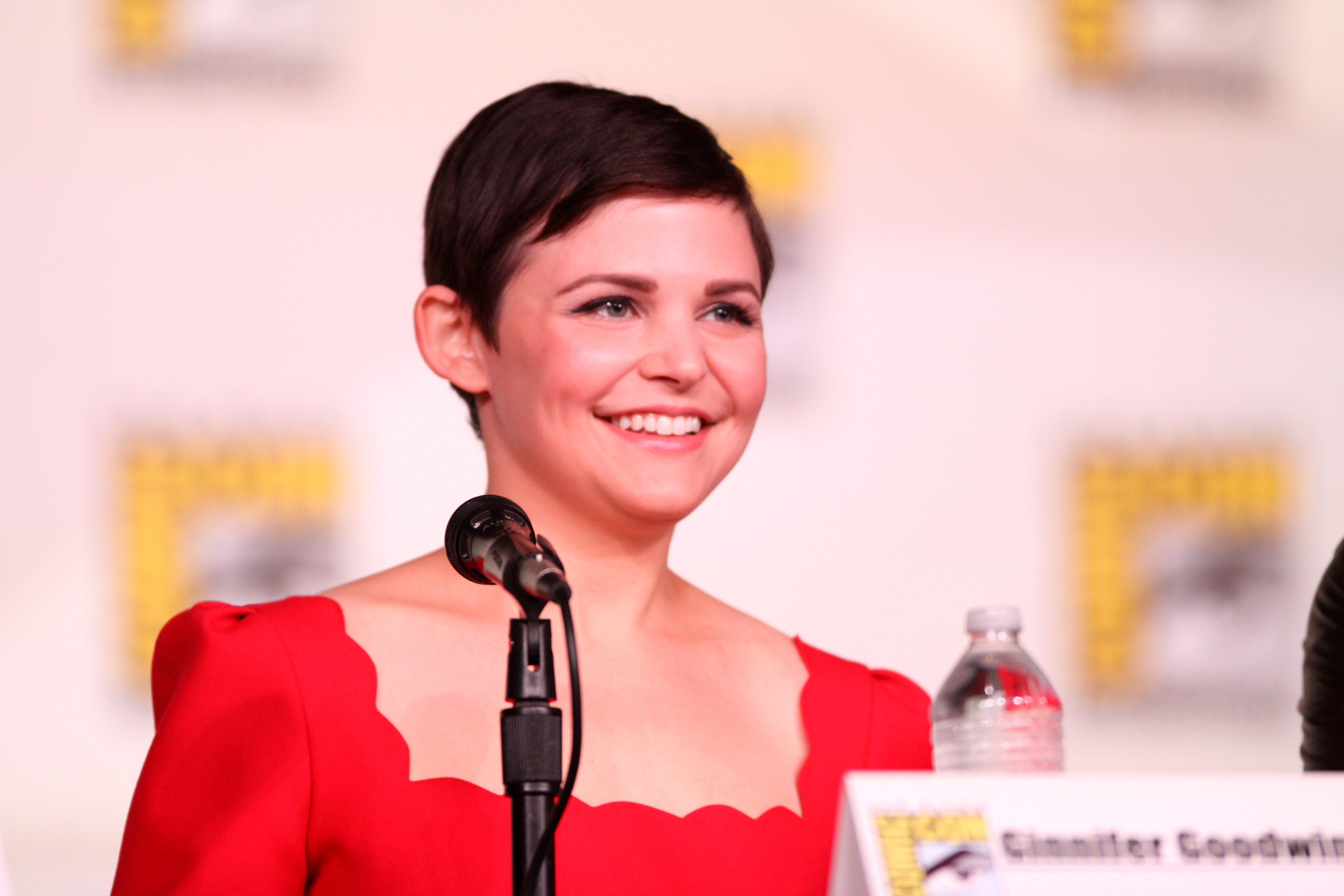 Ginnifer Goodwin speaking at the 2012 San Diego Comic-Con International in San Diego, California.